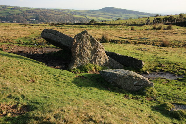 Corringdon Ball chambered cairn The remains of a neolithic burial chamber, one of the largest burial monuments on Dartmoor.